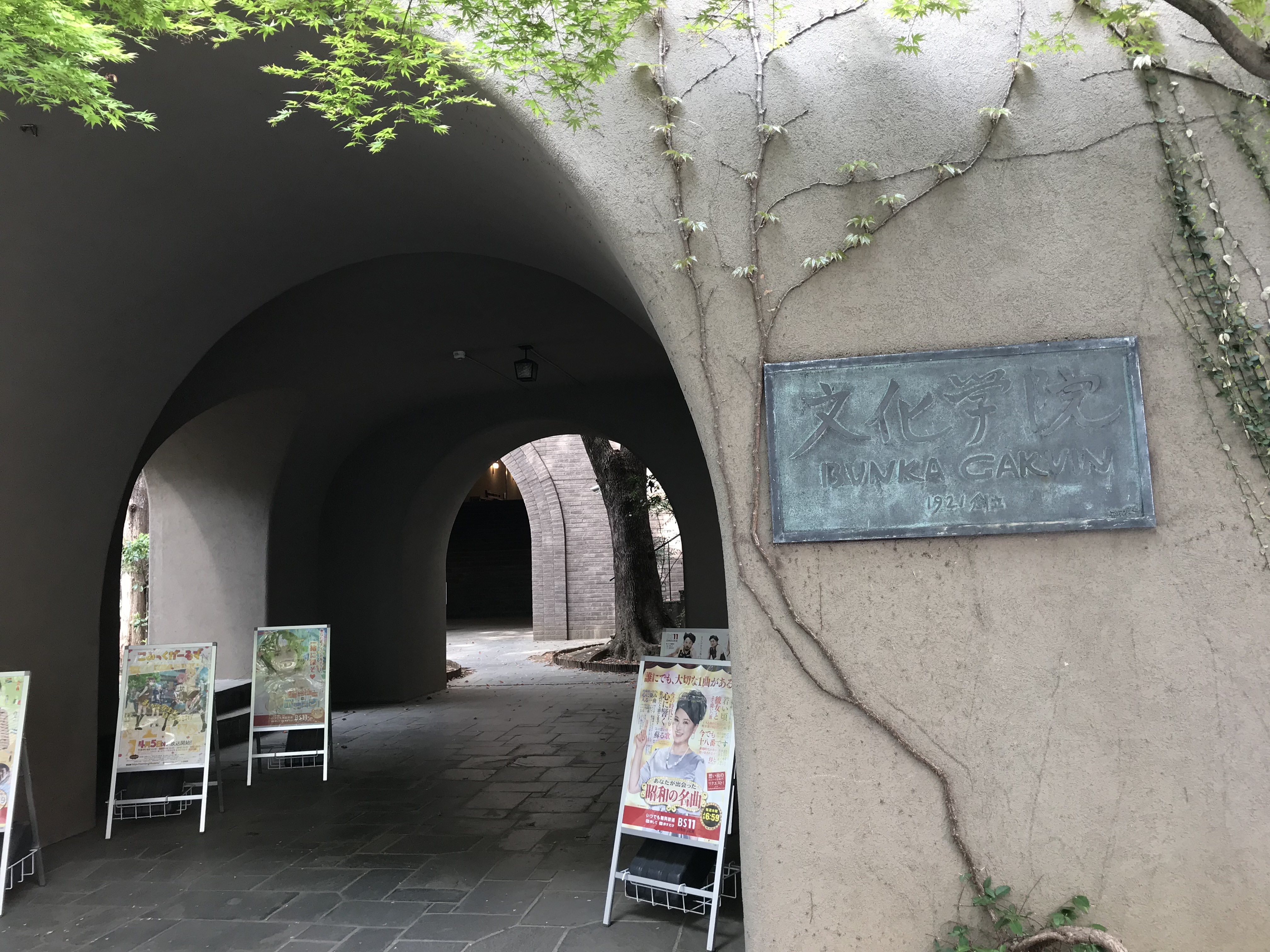 the old entrance of Bunka Gakuin